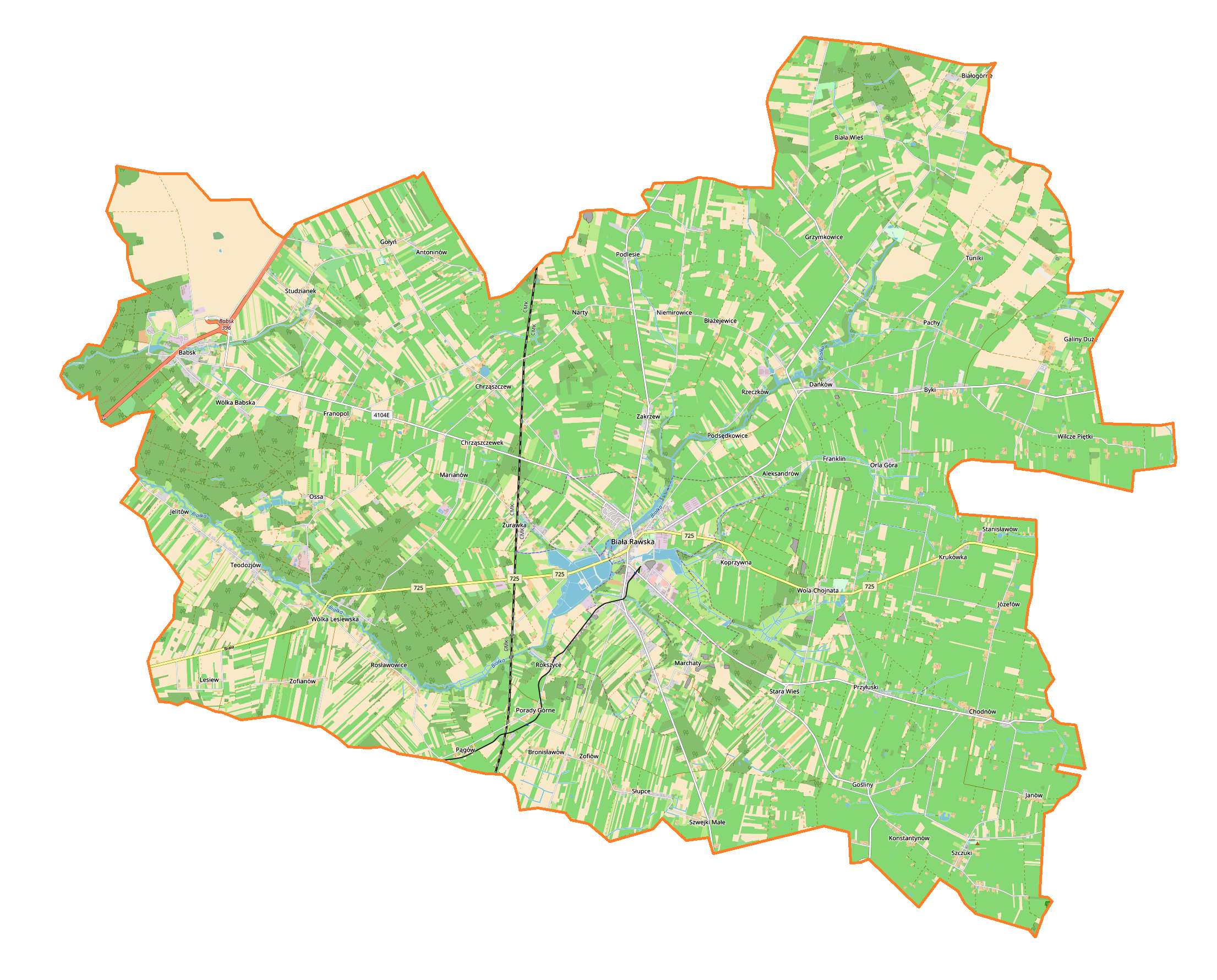 Location map